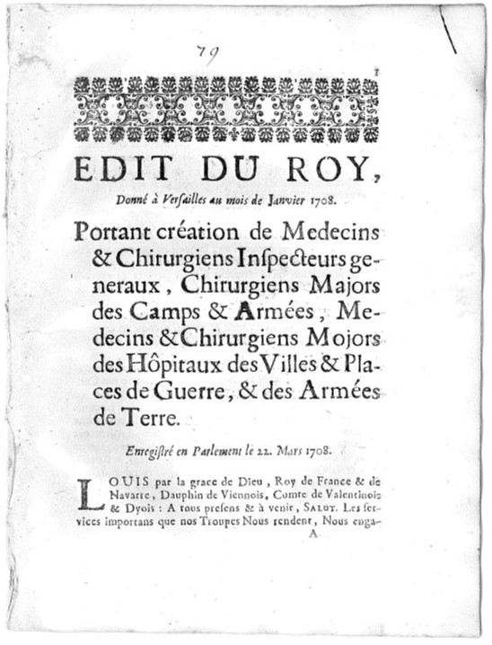 First page of the edict of 1708 considered in France as the founding act of the Army Health Services.